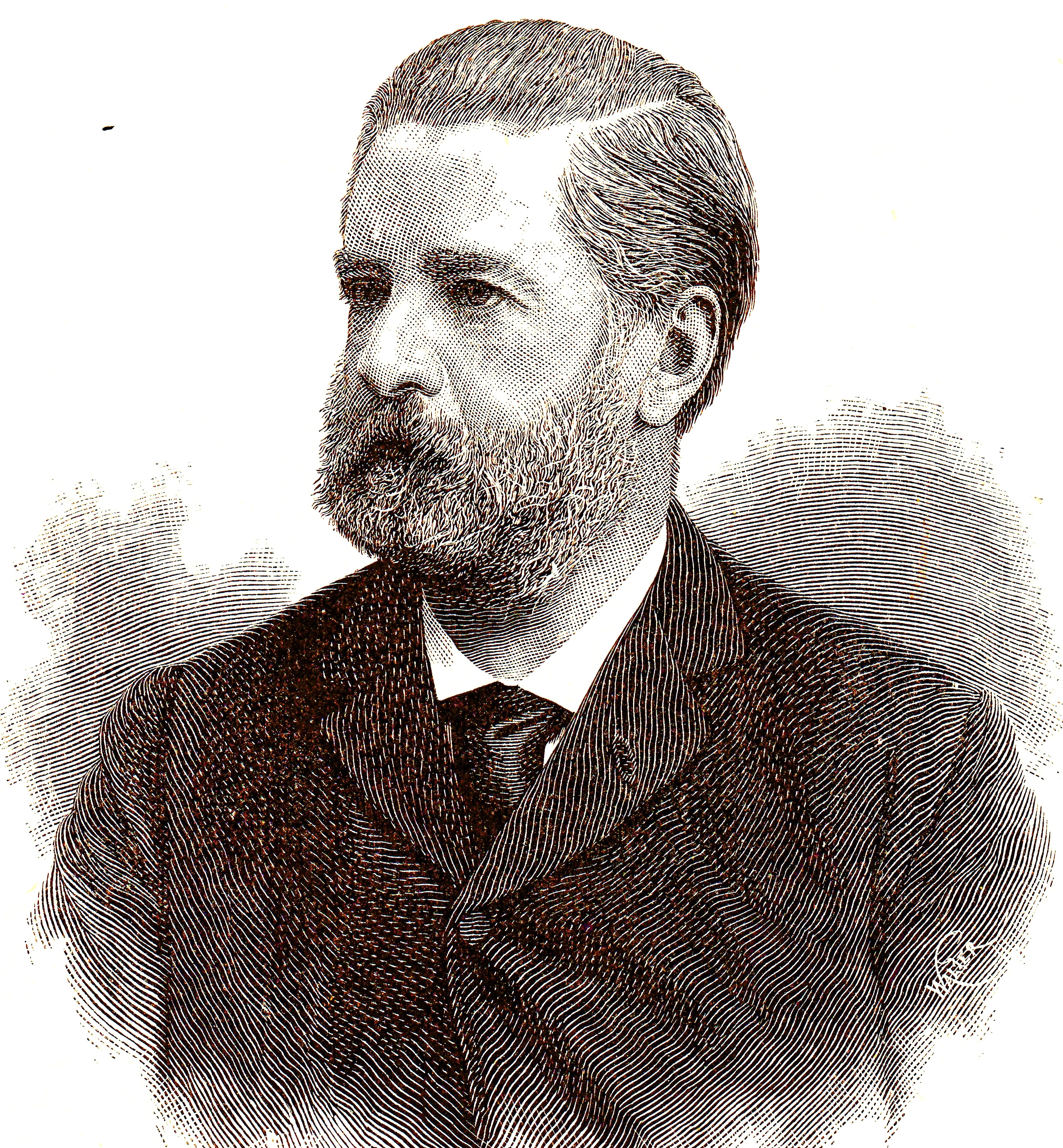 J.G. Gleichman